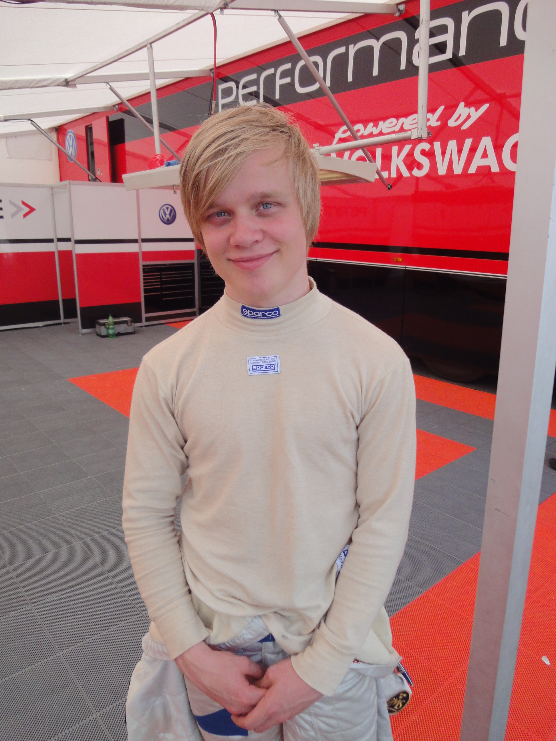 Felix Rosenqvist: the photo was taken during 2010's ADAC GT Masters race weekend at Hockenheim